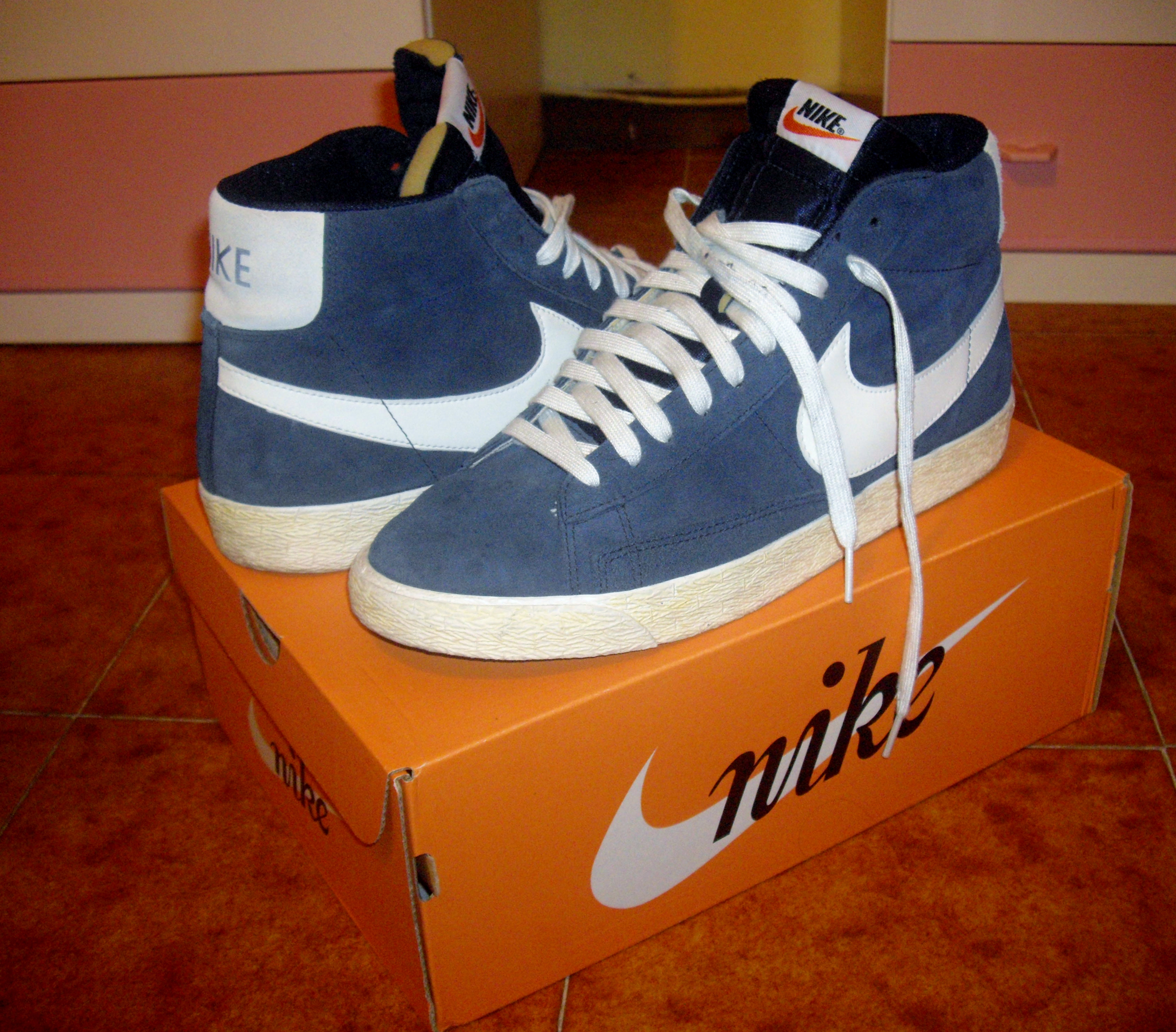 Nike Blazers italian version